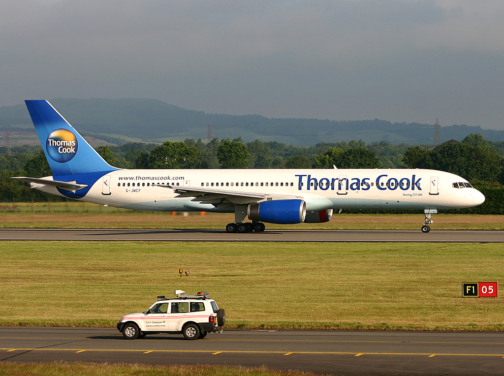 This image was taken by Martin J.Galloway. Donated from the British Photo Encyclopedia Dotonegroup : talk. Thomas Cook Airlines Boeing 757 -200 series lining up for take-off at Glasgow International Airport, Scotland.